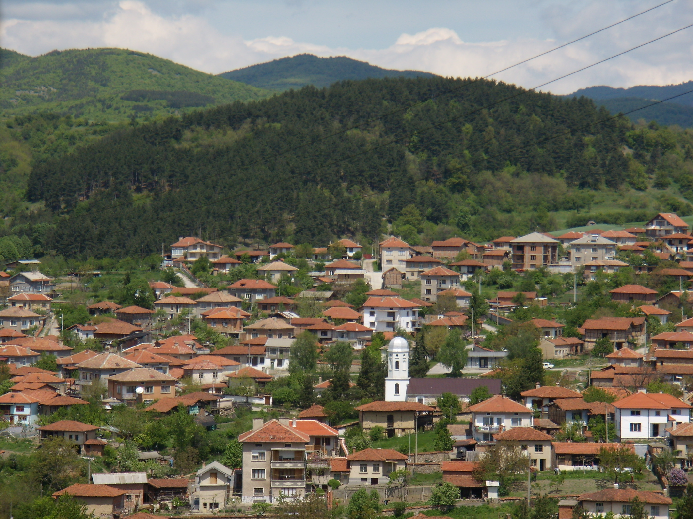 A view of the village of Oborishte, Pazardzhik Province, in Bulgaria